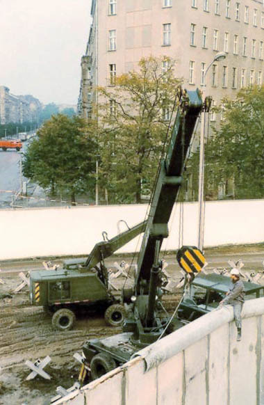 Berlin Wall - completion operations at the top of the wall at Bernauer Straße.